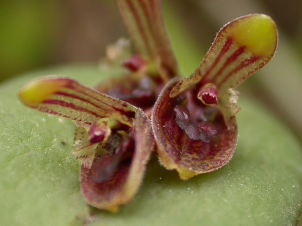 Acianthera pubescens synonym of: Pleurothallis smithiana